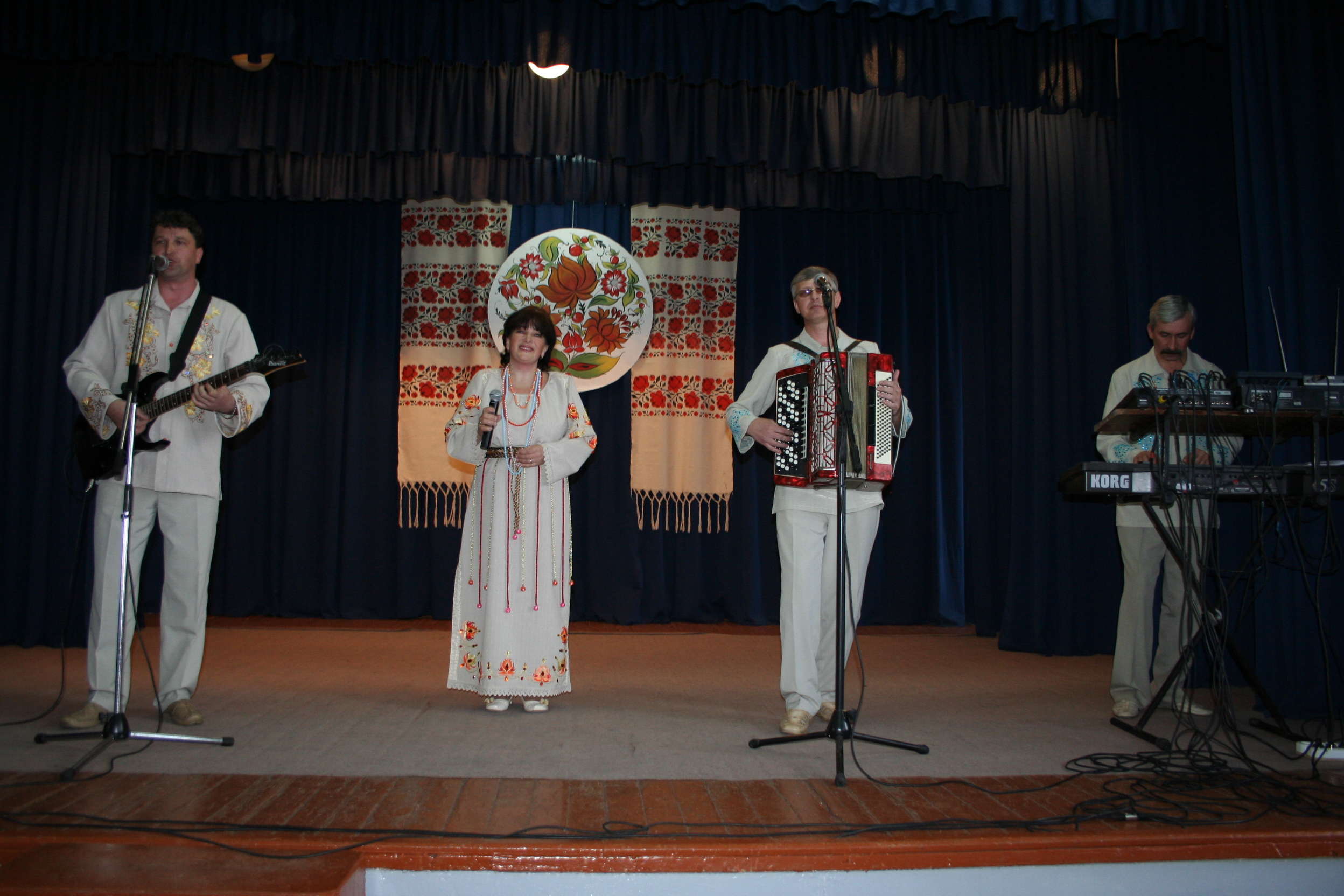 Susidy band, Hradyzk, Ukraine, at the concert